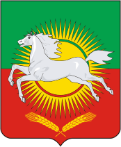 Nurlat rayon (Tatarstan), coat of arms